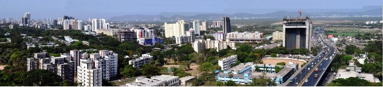 kanjur panorama